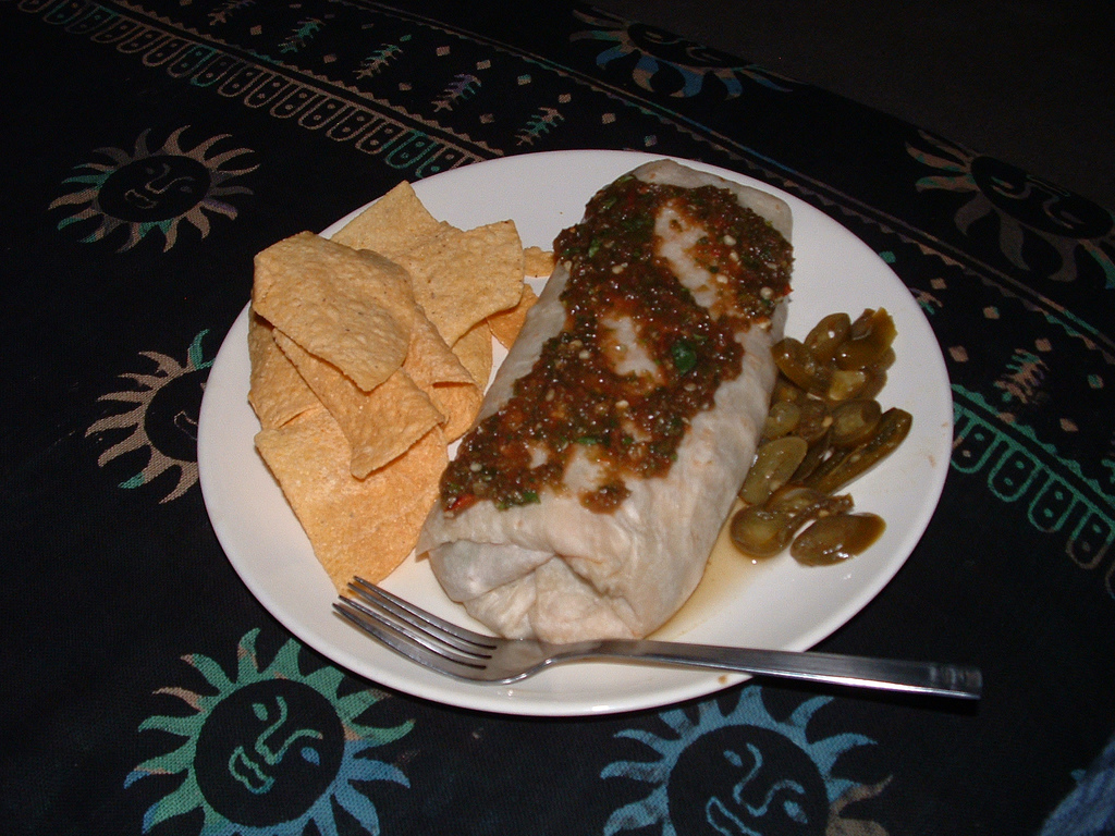 bean and cheese burrito from Baja Taqueria, salsa roja, chips and a whole mess of jalapeños